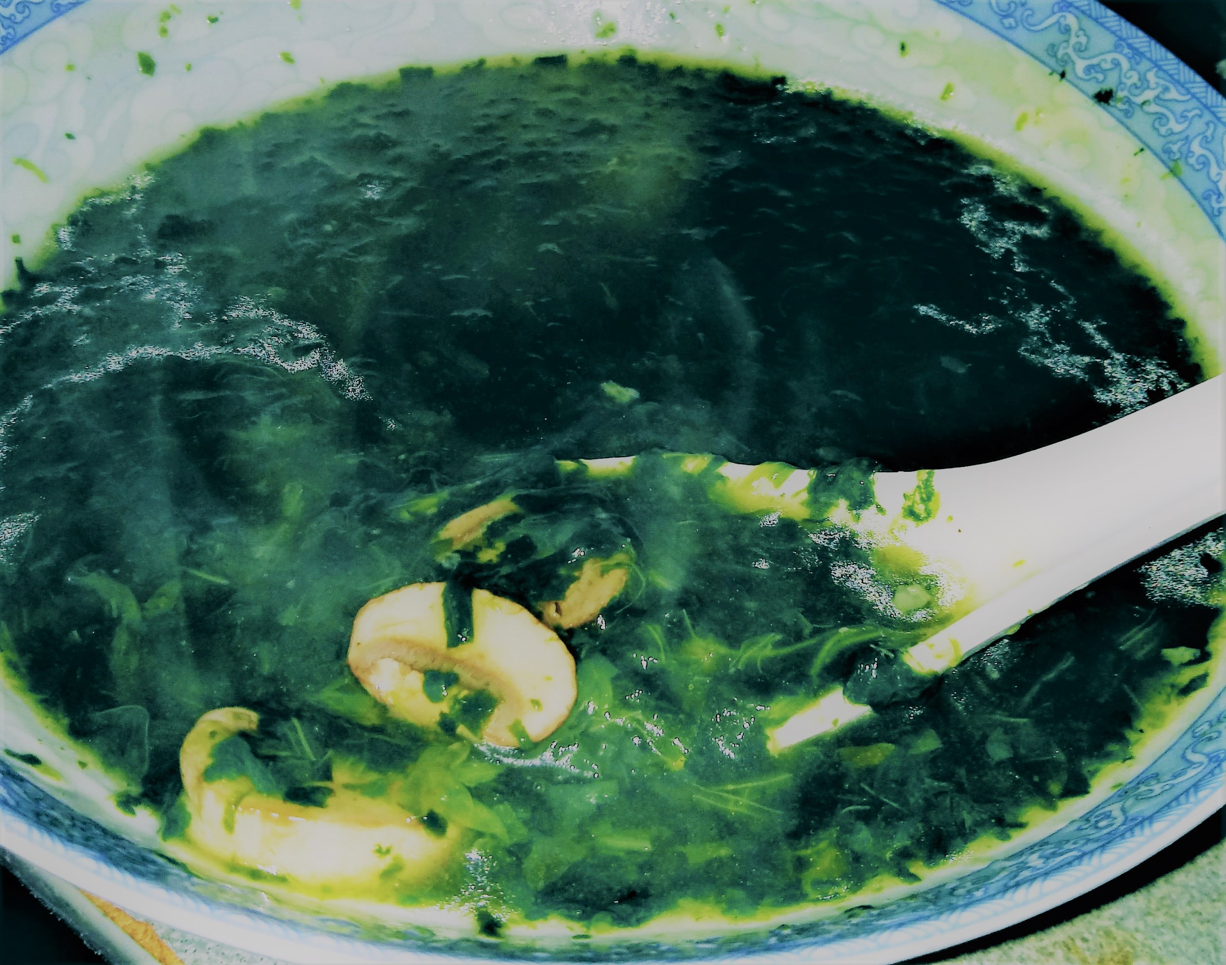 A bowl of Patriotic Soup, served to Emperor Bing in a Buddhist monastery at Chaoshan region during the final year of China's Song dynasty centuries ago around 1278, when he, his family, and Song court and military members were fleeing from the Mongols. Its main ingredients are leaf vegetable (spinach), edible mushrooms, and vegetable broth. This version of the soup was the uploader's attempt to recreate the dish more closely to as it was first developed in 1278 due to using the vegetable broth and spinach (the actual leaf vegetable ingredient the preparers used back then was not known, but obviously not with sweet potato leaves due to there were no sweet potatoes back then until the 16th century during the Ming dynasty, and the monks at that time would never use chicken or beef broth for the soup). The uploader himself is a Chaoshanese descent. Recipe can be found here, in Chinese.[1] However, the uploader has made his own simplified recipe of this dish and written it in English. Ingredients: 1.125 lb. frozen chopped spinach 1 teaspoon cooking oil 1.5 cups vegetable broth 5 straw mushrooms, cut in halves. 1/2 teaspoon salt and sesame oil 1 teaspoon cornstarch 1. Bring a saucepan of water to boil over high heat, add the frozen chopped spinach, and blanch for 5 minutes. Drain and rinse under cold water. 2. Heat the oil in a wok or skillet over medium heat, add the spinach and sit-fry for 2 minutes. Transfer the spinach to a saucepan with vegetable broth, then add the mushrooms, sesame oil, and salt. Bring to a boil over high heat for 5 minutes. 3. Mix the cornstarch with 1.5 tablespoon water in a small bowl and stir this mixture into the soup. Bring to a boil, stirring, for seconds to thicken the soup. Adjust the seasoning to taste by adding dashes of soy sauce, salt, and white pepper if desire, then serve.